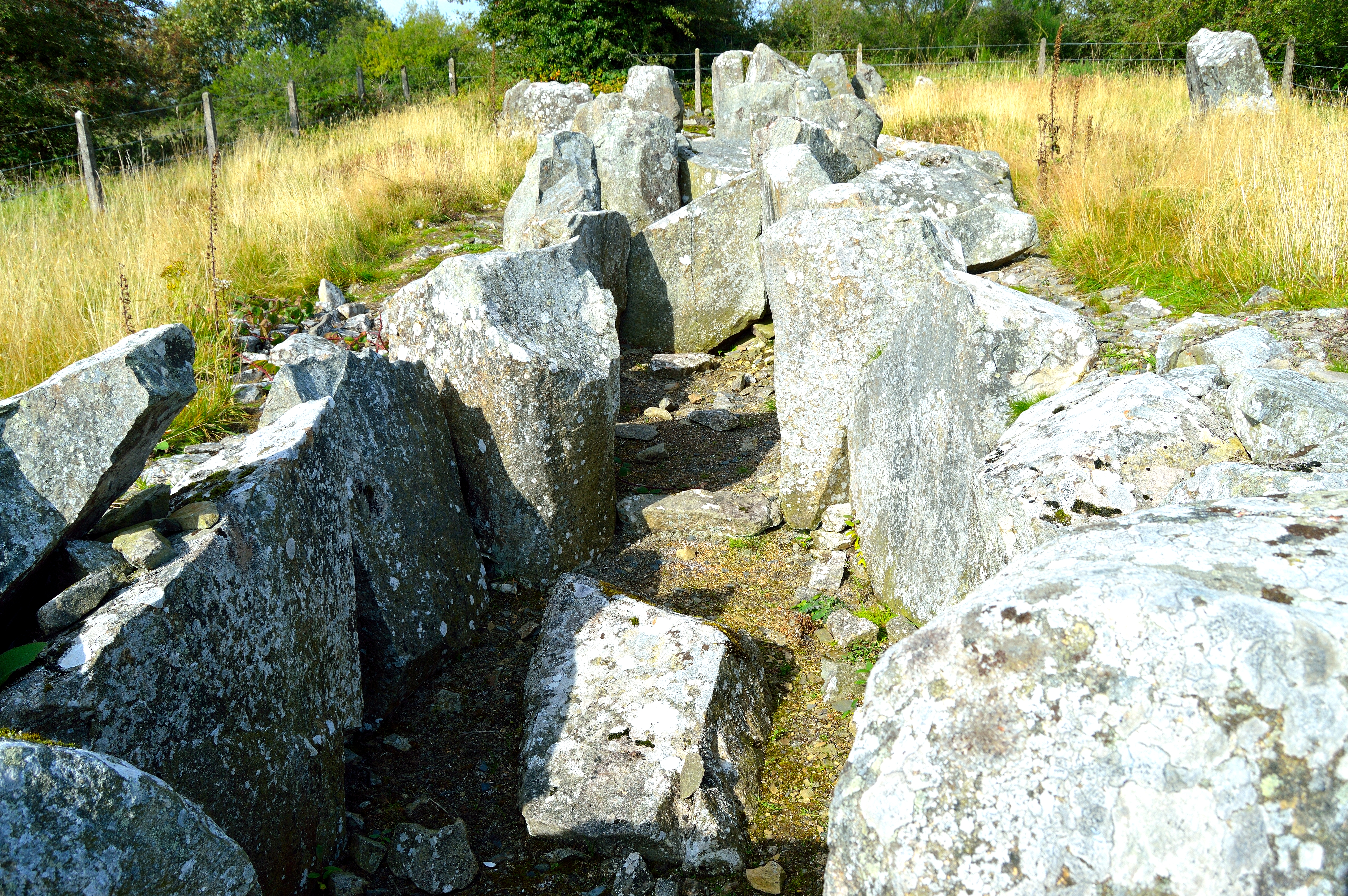 Cohaw Tomb